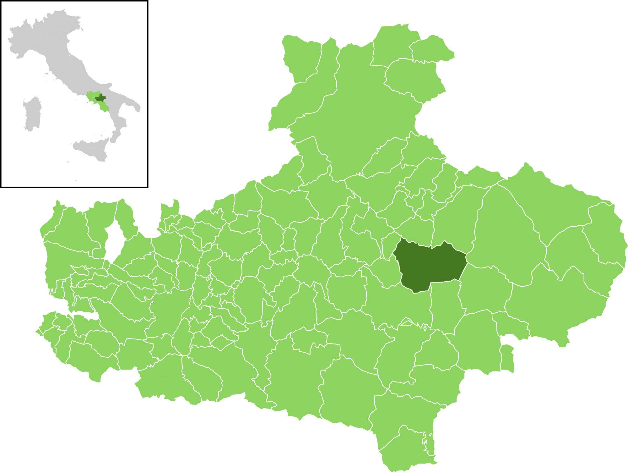 Position of the municipality of Guardia Lombardi in the Province of Avellino.